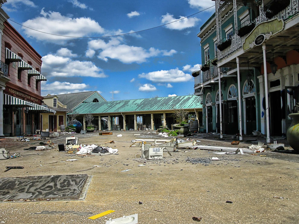 streets-of-six-flags-New-Orleans-are-trashed